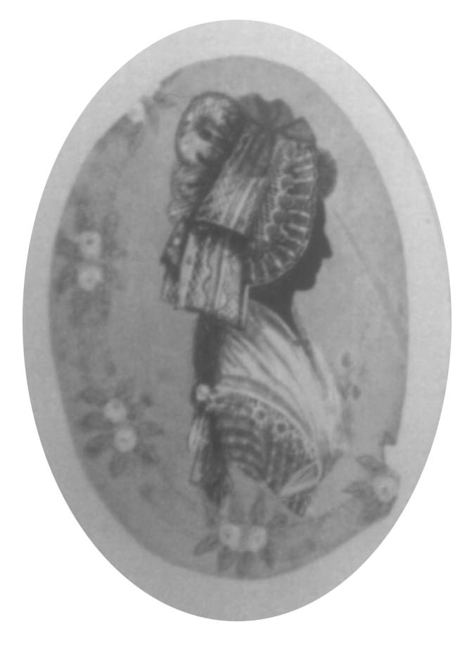 Ehefrau des Amtsverwalters v. Schatte